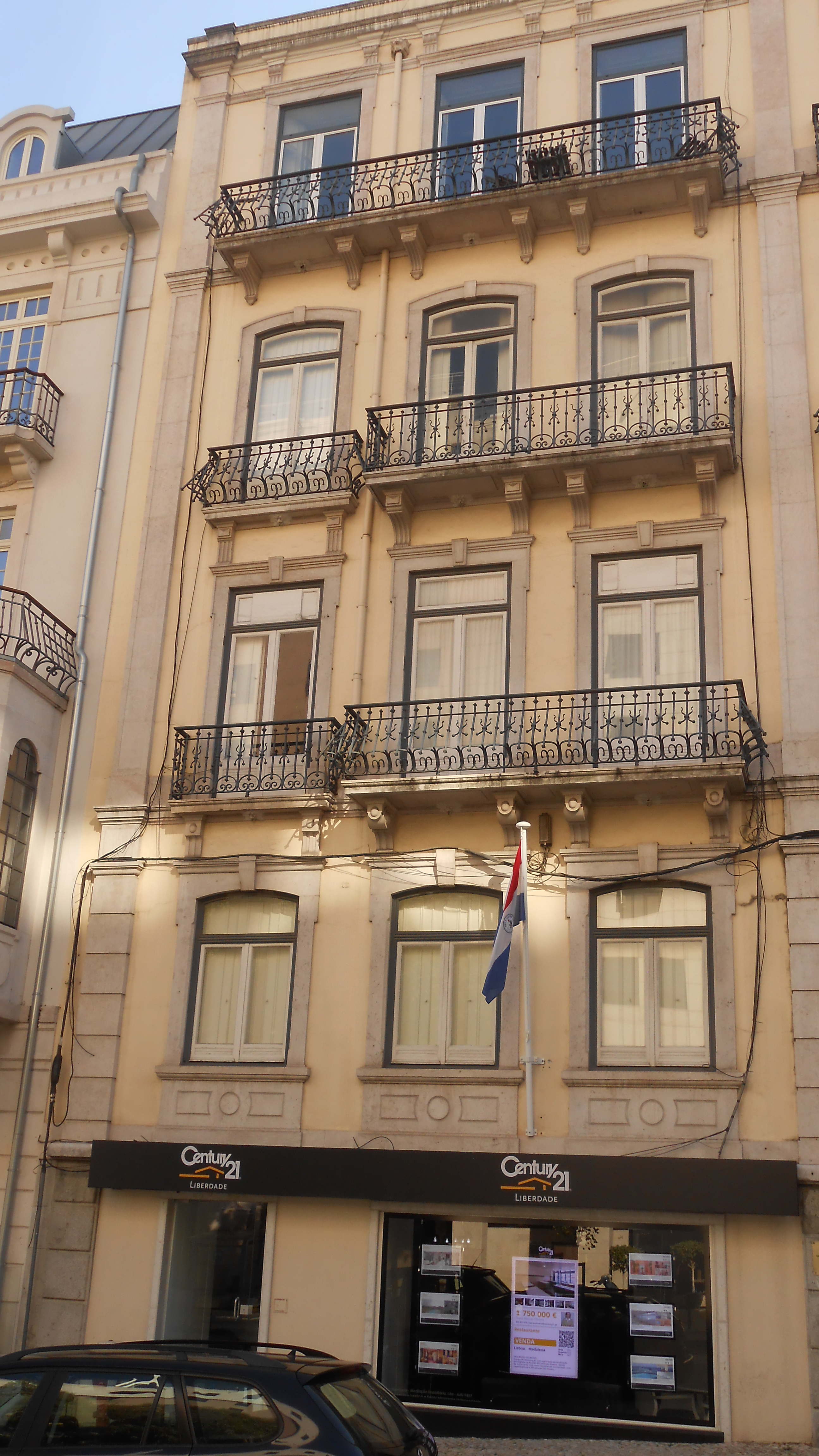 The embassy of the Republic of Paraguay in the Rua Alexandre Herculano, near the central Avenida da Liberdade.